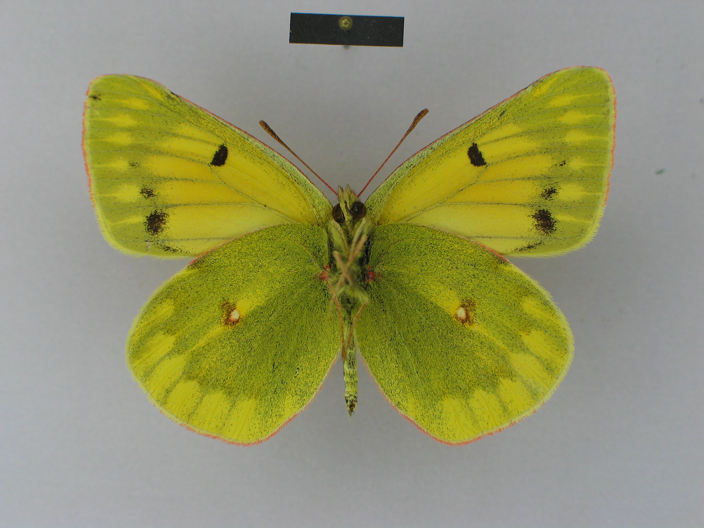 Paratype of the species Colias nina tsurpuana from the collection of the Zoologische Staatssamlung München; ♂ ventral side; scalebar=1 cm